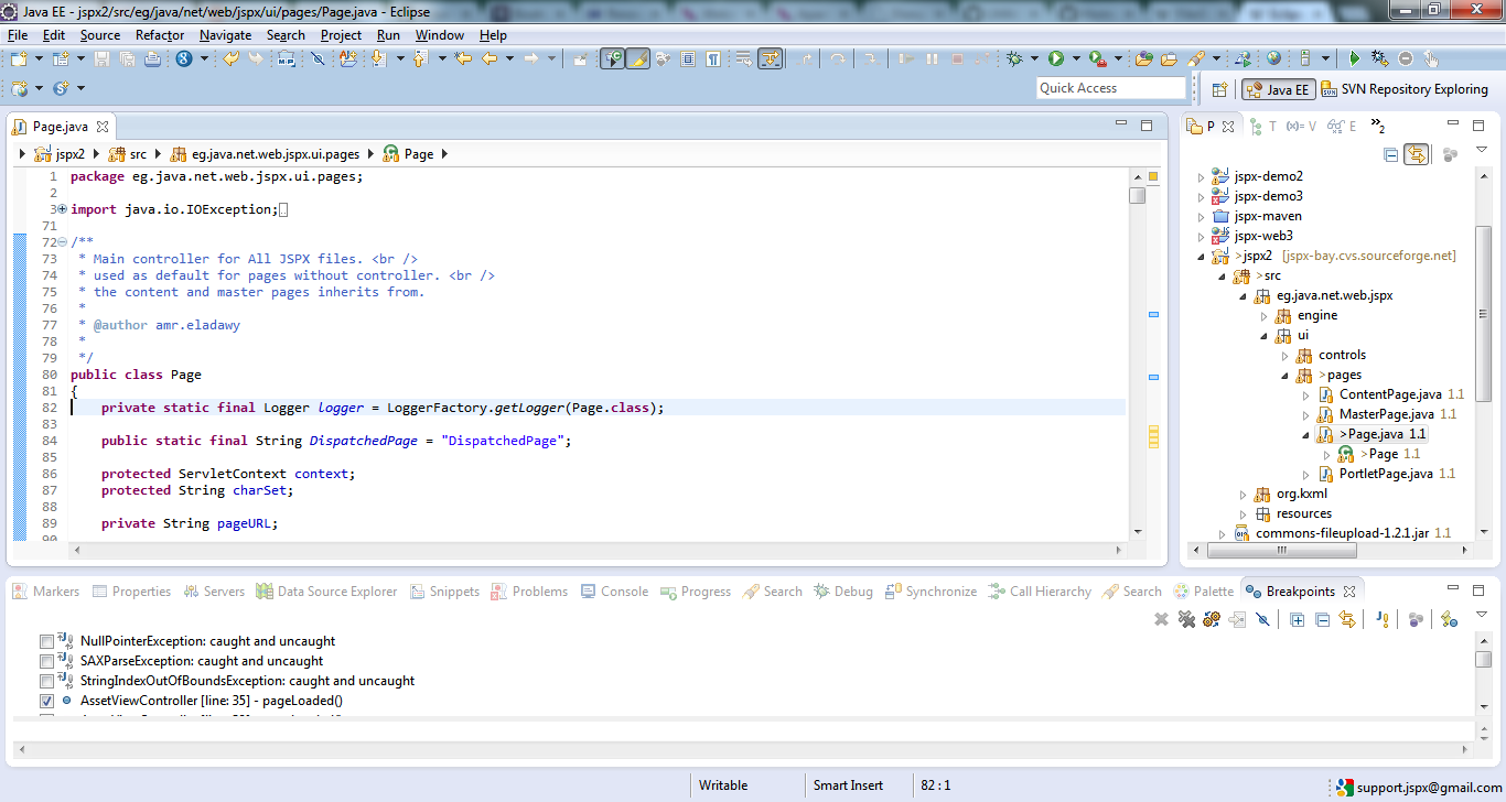 Screenshot of Eclipse 4.3 Kepler in the JEE perspective